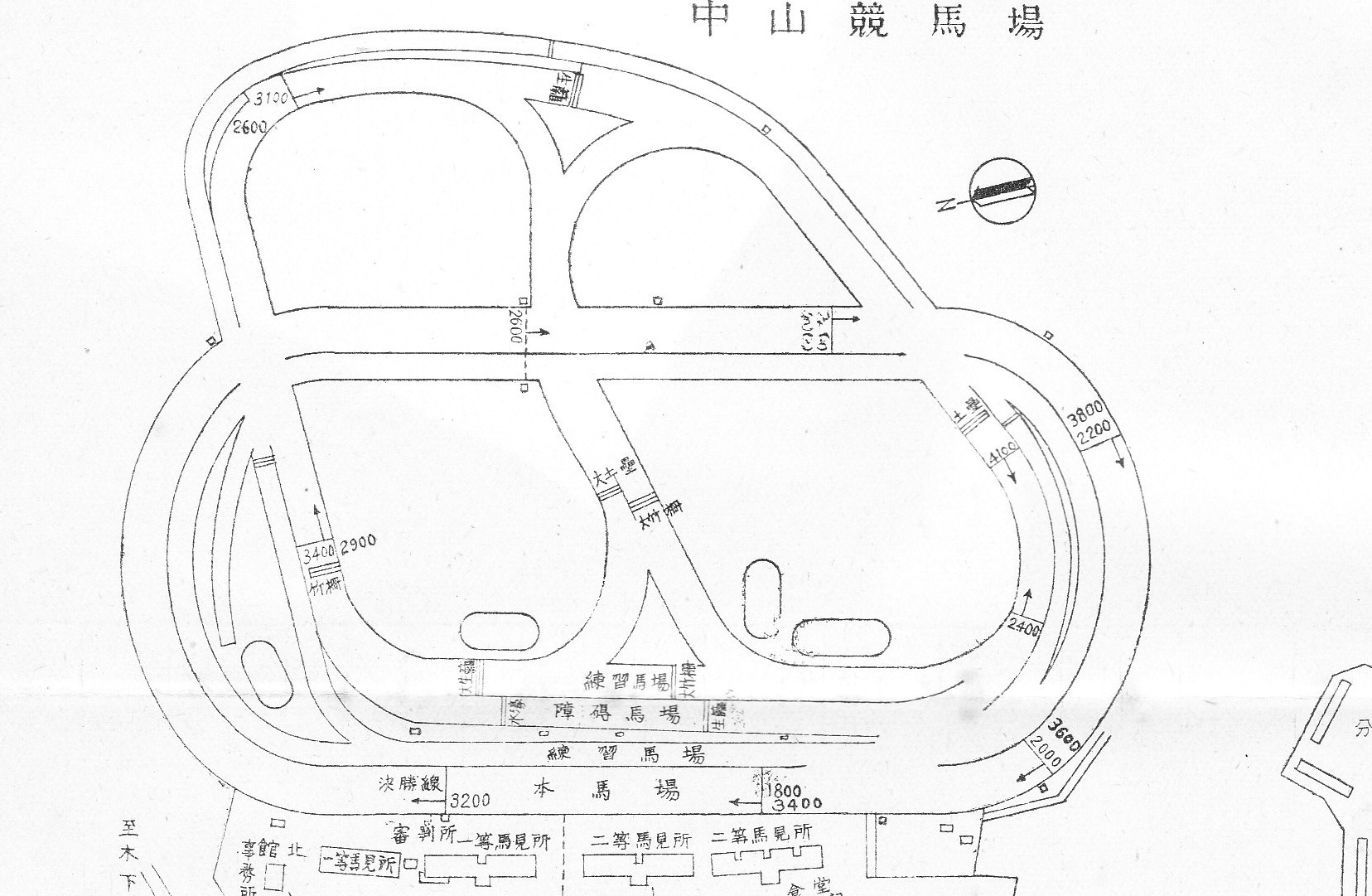 Nakayama Racecourse(1940)